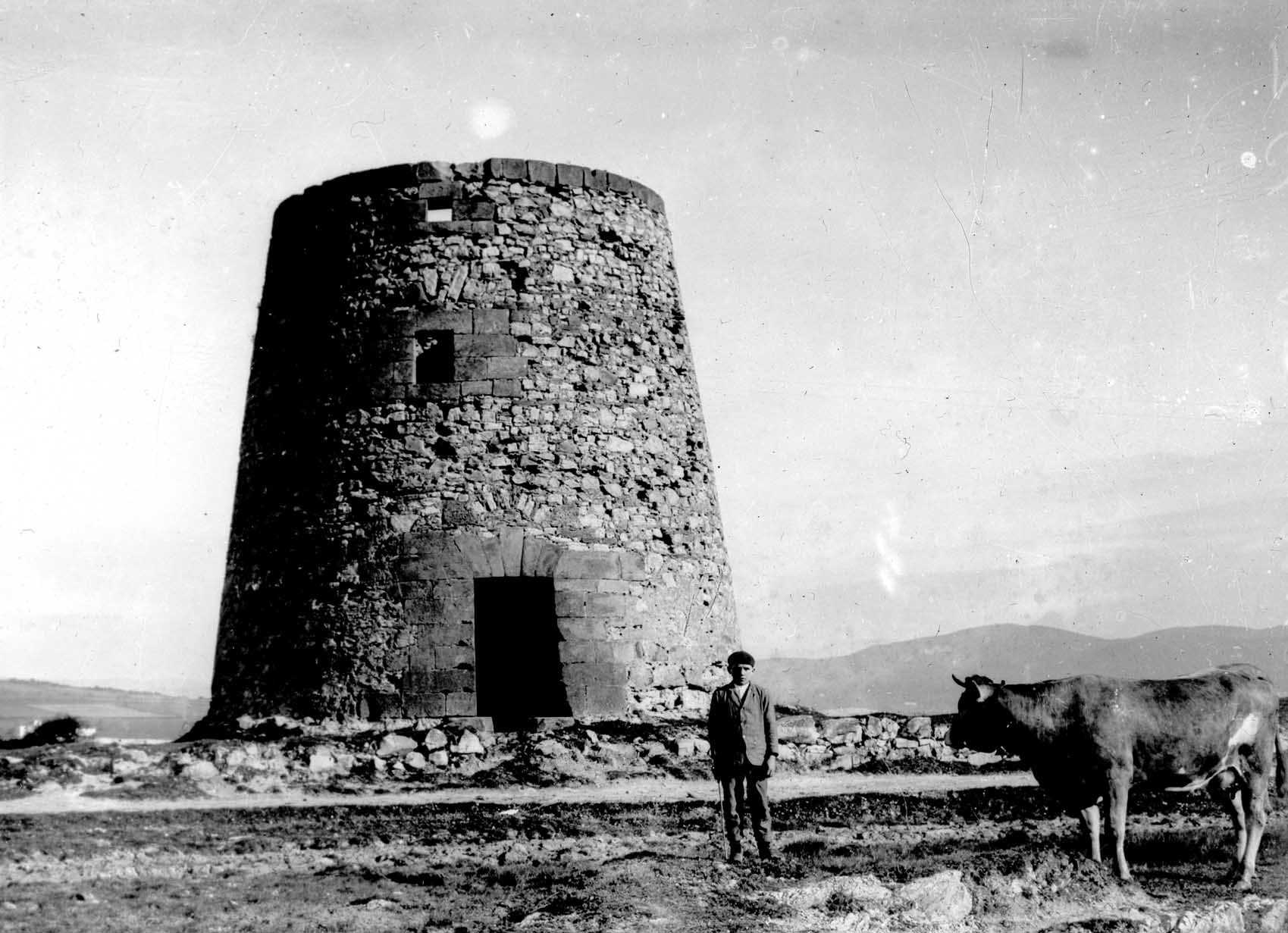 A boy and a cow before the ruins of the windmill of Aixerrota, in Getxo.